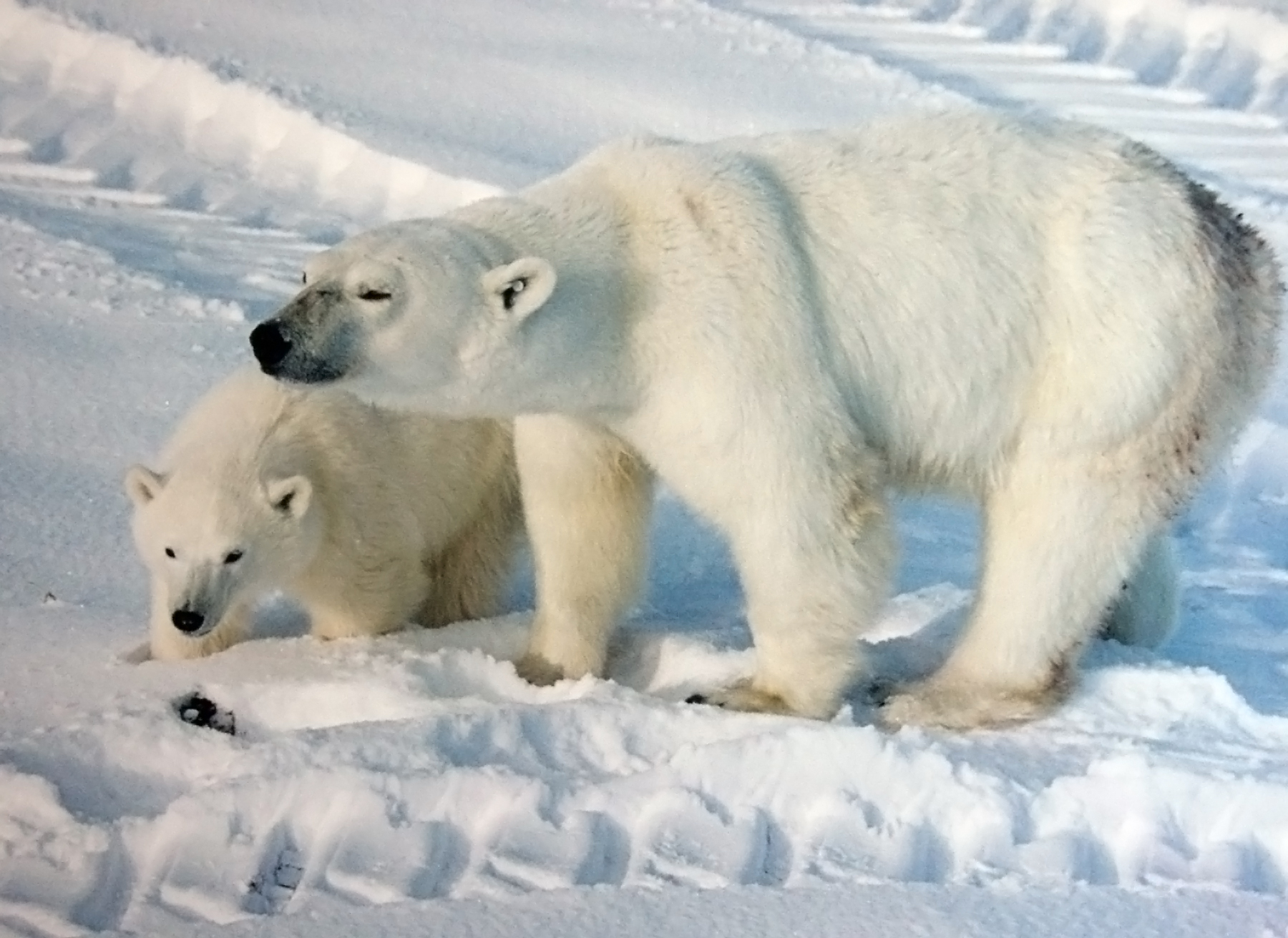 A sow with a cub polar bears,Ursus maritimus in Churchill, Manitoba.The sow has an Ear tag.